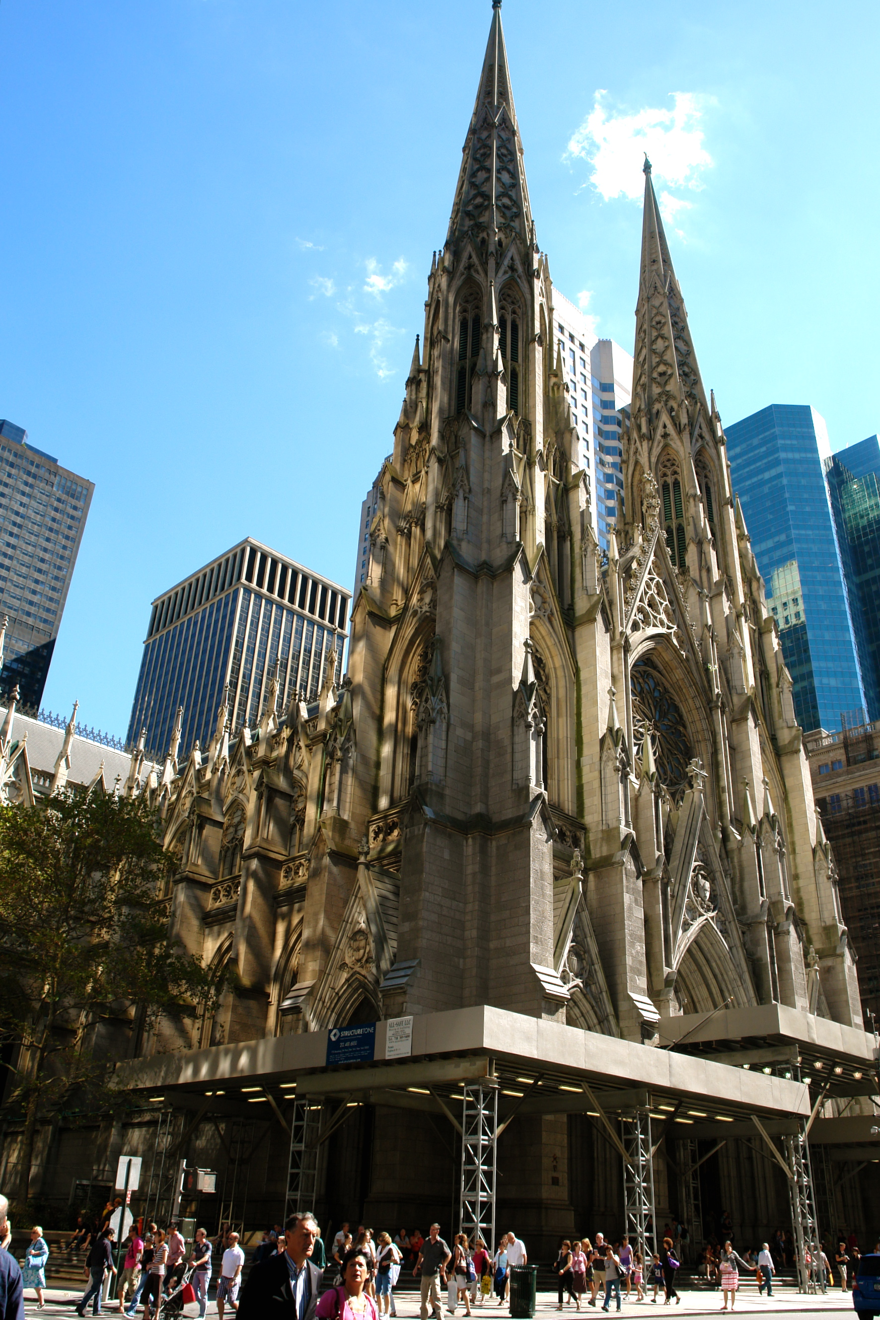 Done in the Gothic Revival (Neo-Gothic) Style, this magnificent, marble clad, Roman Catholic cathedral was started in 1858. Located on 5th Avenue in Midtown Manhattan, it takes up an entire city block (2 acres) and can accommodate 2,200 people.